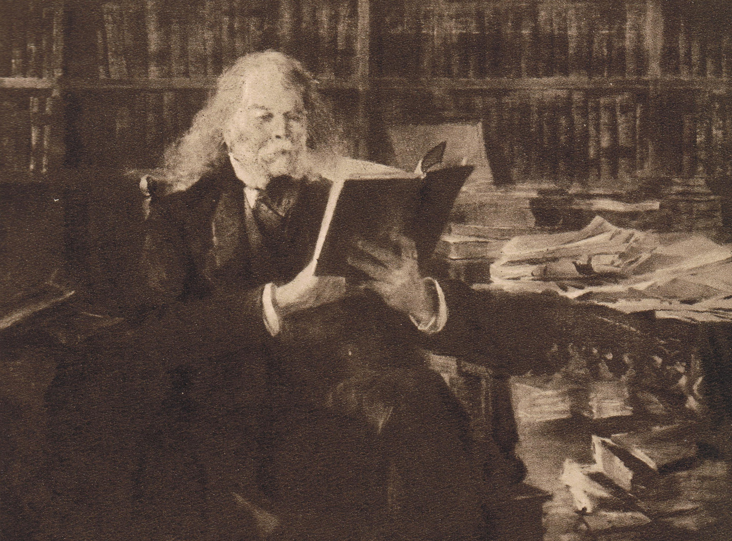 Scan of plate (cropped version) facing p. 136 from Men I Have Painted by John McLure Hamilton. A portrait of Richard Vaux (1816-1895) by Mr. Hamilton. Reproduced by permission of the Pennsylvania Academy of the Fine Arts